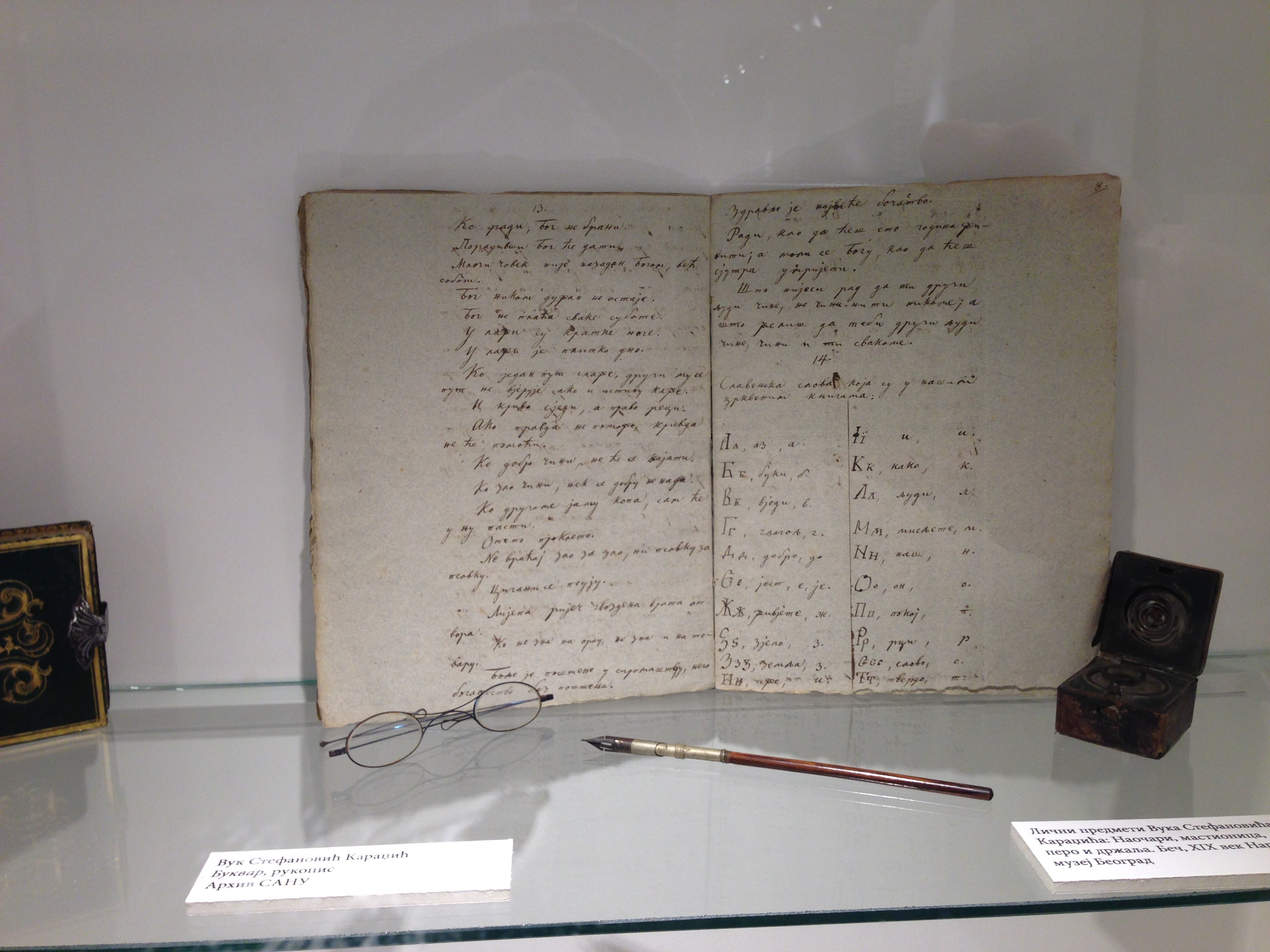 Vuk Stefanovic Karadzic, Personal objects and spelling book, Archive of the Serbian Academy of Sciences and Art in Belgrade